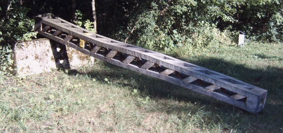 Wooden sculpture at the track of a former railway depicting a toppled pylon. Artist: Andreas Welzenbach, 2004